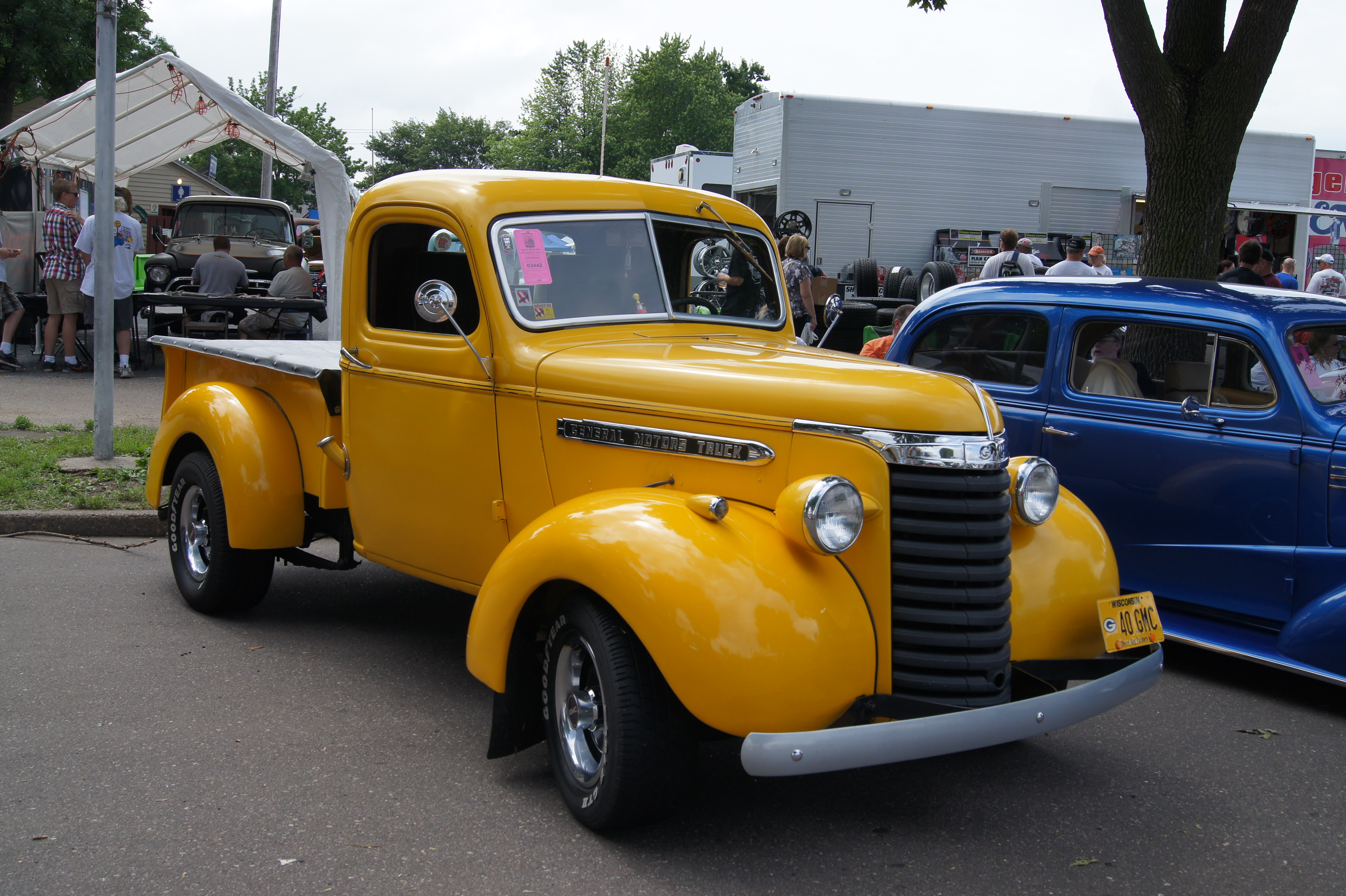 MSRA “BACK TO THE 50′s” 40th ANNIVERSARY June 21-23, 2013 State Fairgrounds St. Paul Minnesota More Car Pictures